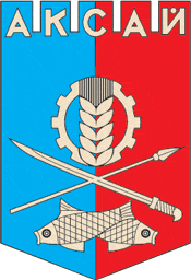 Aksai (Rostov oblast), coat of arms (1988)